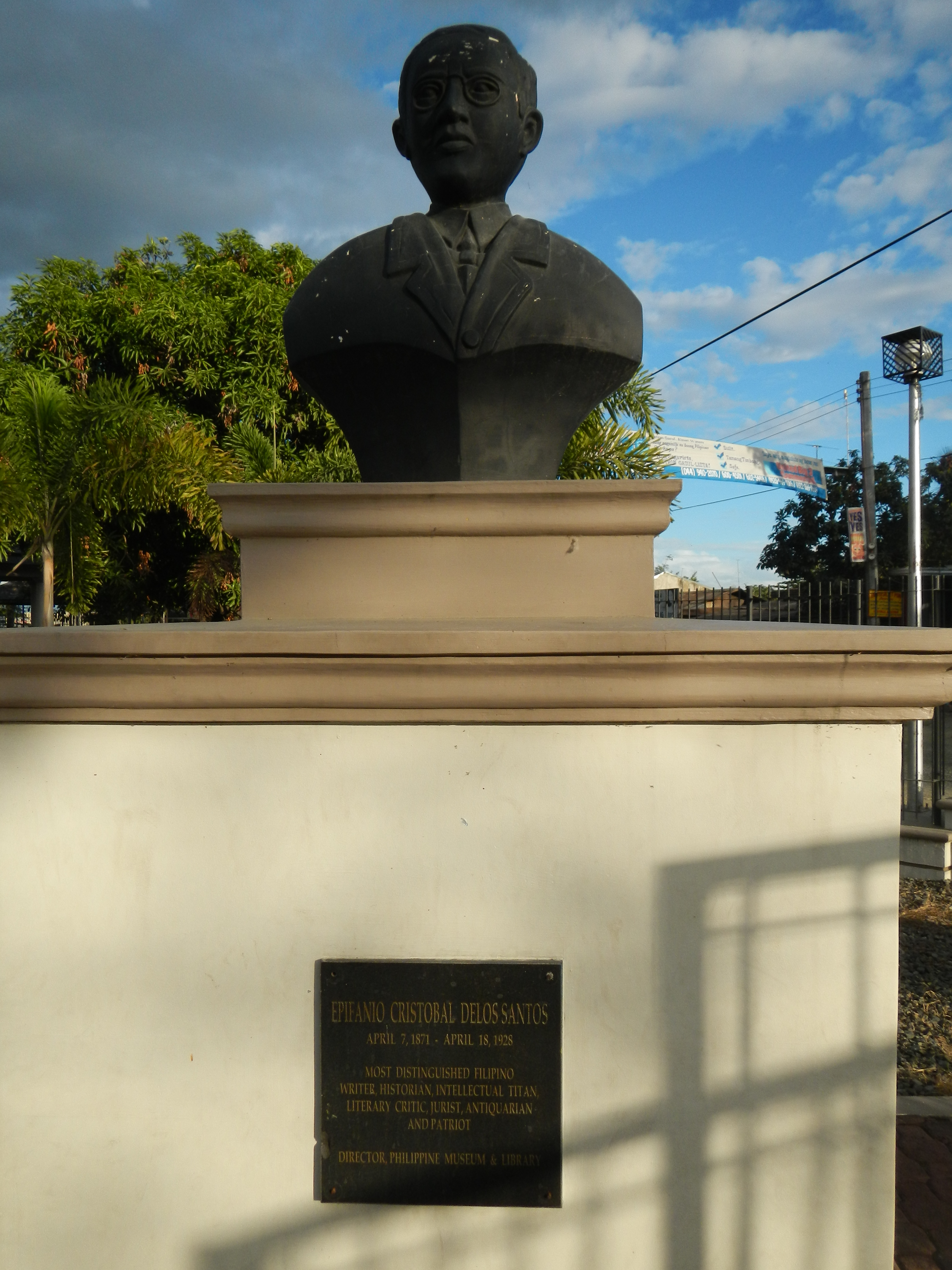 [1] City of Cabanatuan (Filipino: Lungsod ng Kabanatuan) is a highly urbanized city in the province of Nueva Ecija, Philippines.